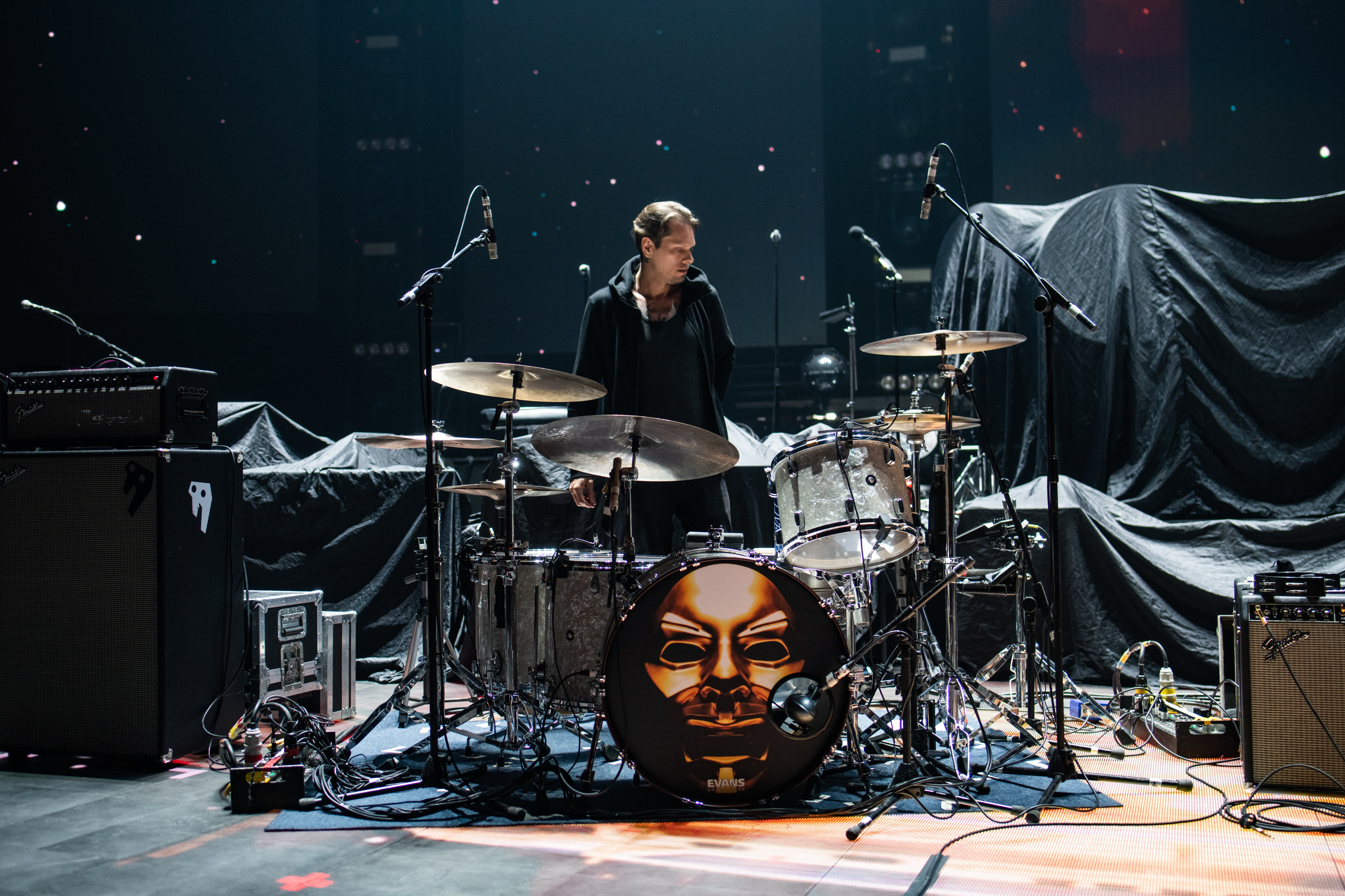 Chris Hornbrook standing behind his drum kit while on tour with Dhani Harrison. Dhani was on tour with ELO during the Summer of 2019.